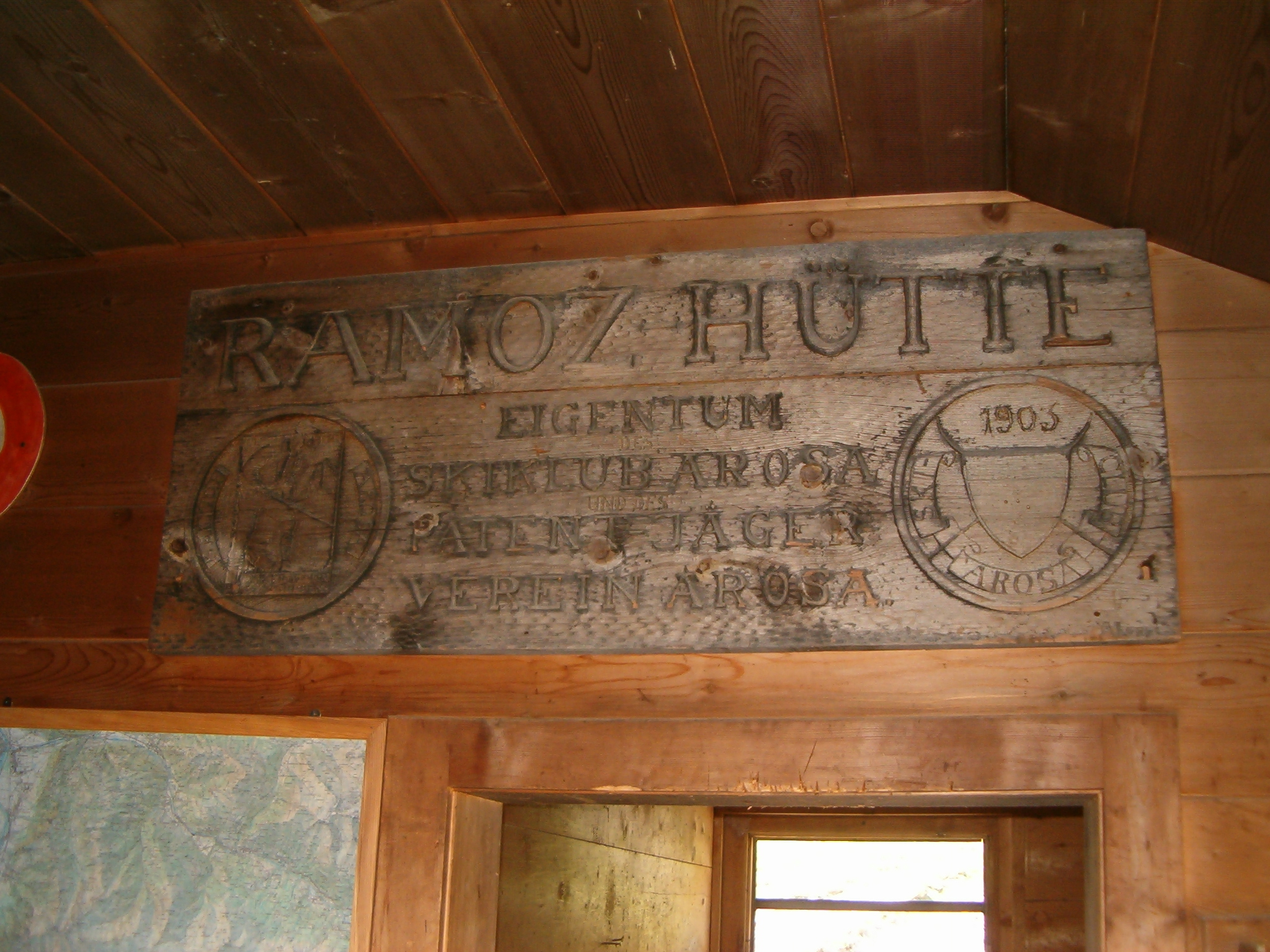 Ramoz Mountain Hut inside, Arosa/Switzerland